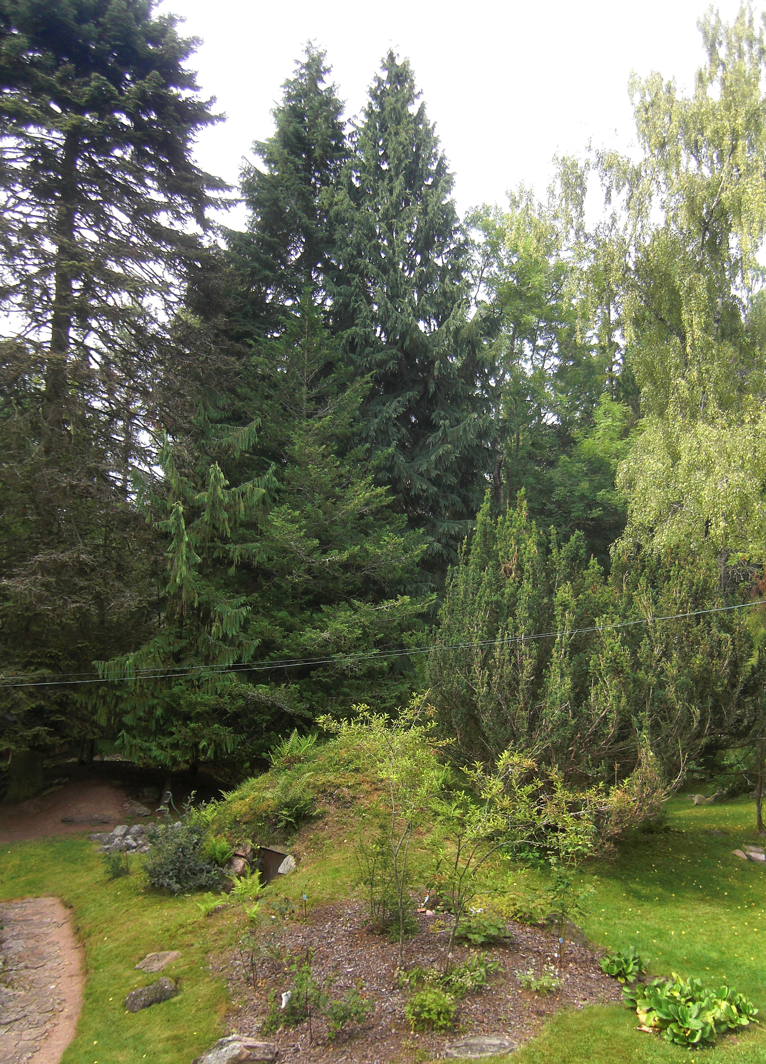 Alphems arboretum is a garden in Floby parish, Vilske hundred, Falköping municipality, former Skaraborg county, Västergötland, Västra Götaland county, Sweden. In the picture we see a root cellar surrounded by mostly conifers. To the left in the background is an European silver fir (Abies alba) planted in 1898 (113 years old at the moment of the photo). In the middle there are two hemlocks, the left one is a Western Hemlock (Tsuga heterophylla), and the right one is a Mountain Hemlock (Tsuga mertensiana). In the picture a pedular form of Nootka Cypress (Callitropsis nootkatensis) and some yews (Taxus sp.) can be seen.